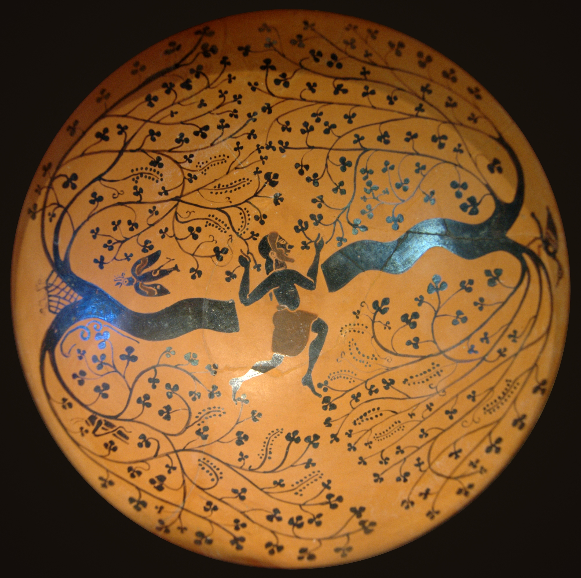 Tondo of the so-called « Coupe à l'oiseleur » (“Birdcatcher cup”), Ionian black-figure cup. From Etruria (?), made in East of Greece ca. 550 BC. Two birds, little birds in a nest, a grasshoper and a snake are dispersed in a luxuriant vegetal background, where the central character moves (perhaps Dionysos if the foliage trees are vine stocks).